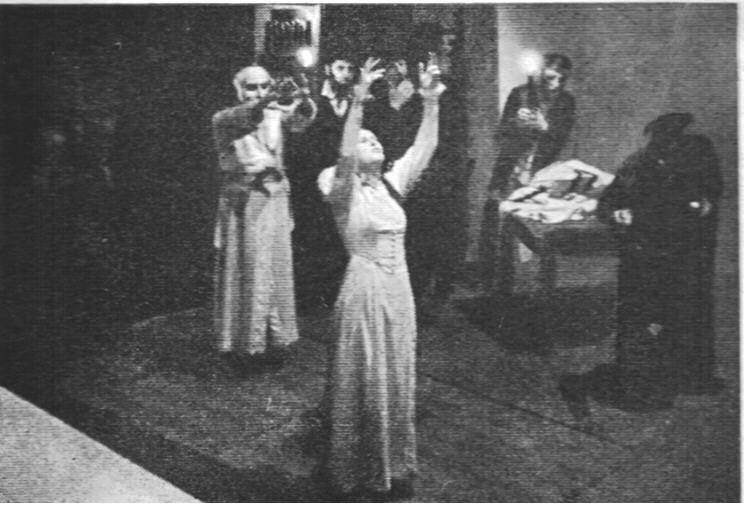 A photograph of The Dybbuk's Hebrew Premiere: Habima Theatre (then operating in Sekretaryova Theater, Nizhny Kislovskaya 6, close to Bolshoy Kislovsky Lane, Moscow), 31 January 1922. On the stage: Hanna Rovina as Leah, the possessed bride; Nahum Zemach as the Tzaddik.